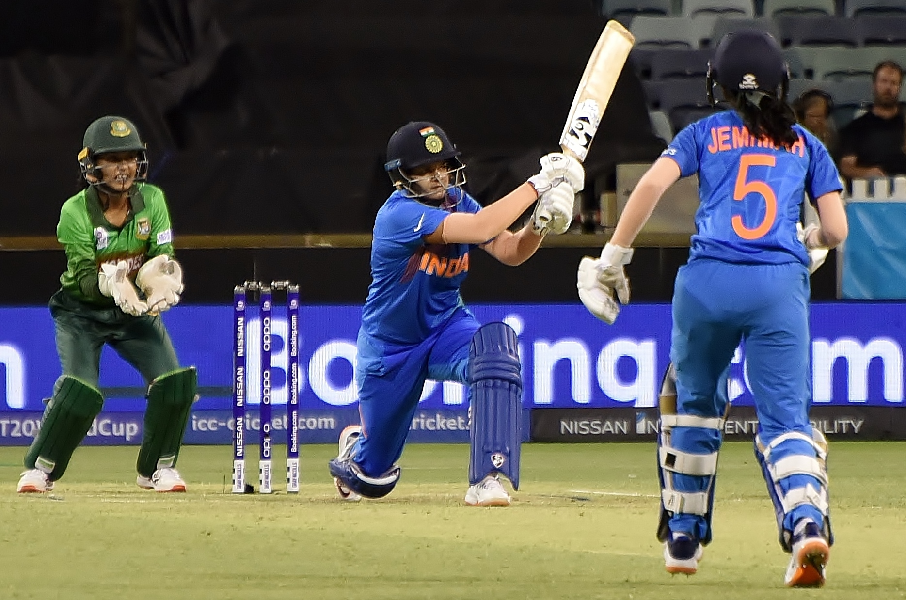 Shafali Verma in the course of her player-of-the-match-winning innings for India against Bangladesh during their 2020 ICC Women's T20 World Cup match at the WACA Ground in Perth, Australia. The non-striker is Jemimah Rodrigues and the wicket-keeper is Nigar Sultana (cricketer).